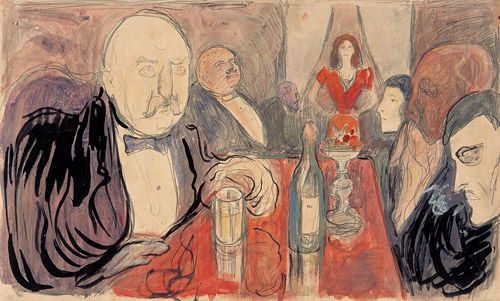 Christiania Bohemen by Edvard Munch